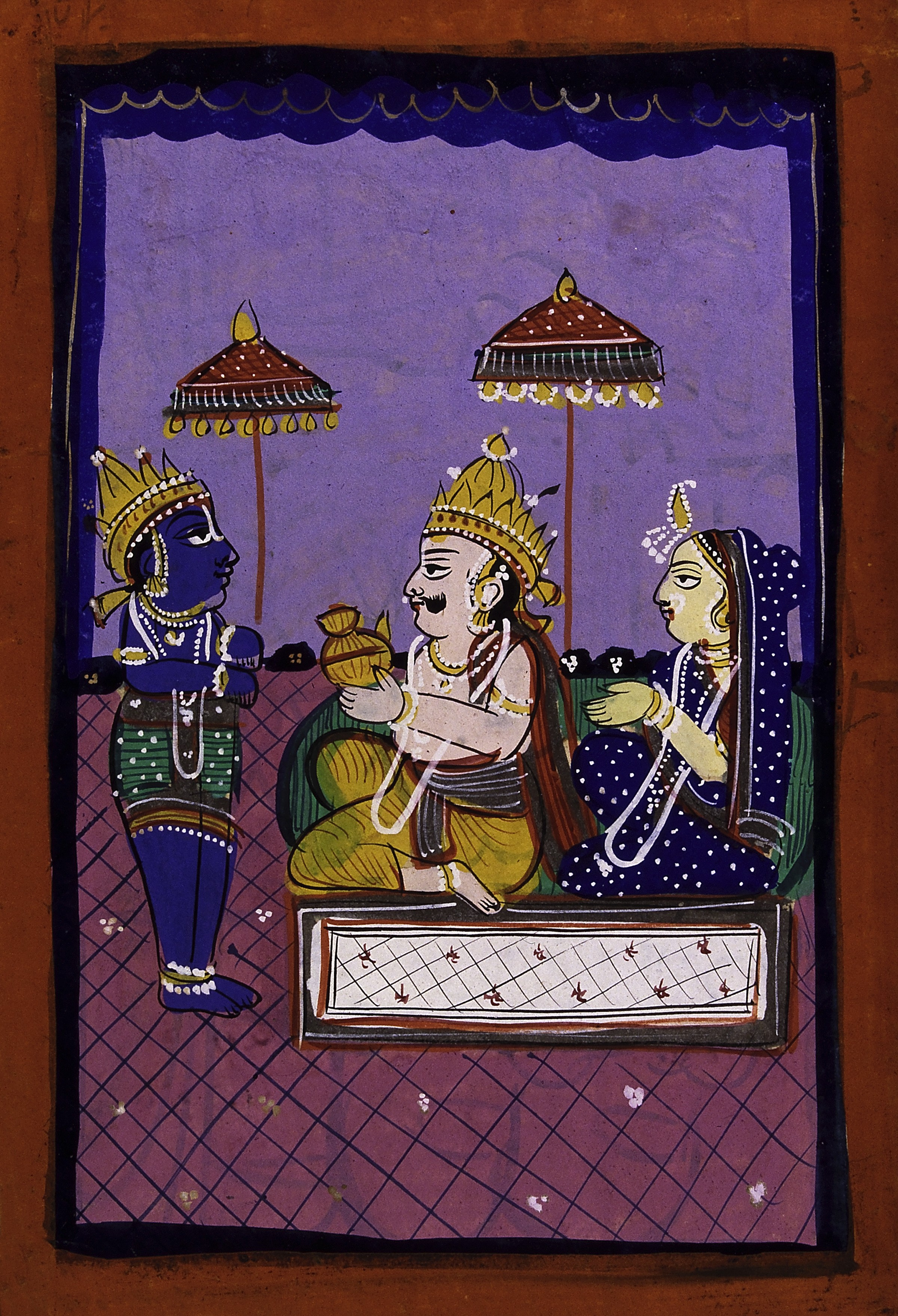 Vamana avatar: Vaman before King Bali and consort. Gouache drawing. Iconographic Collections